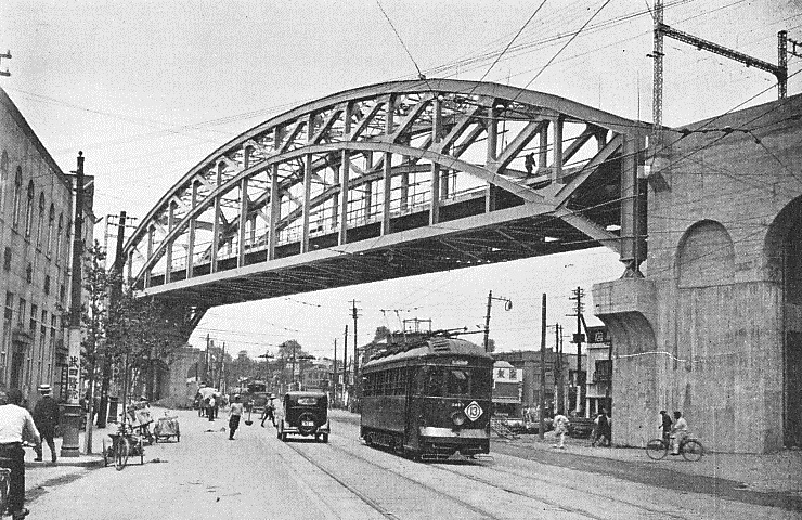 Matsuzumicho Over-road Bridge in 1930s